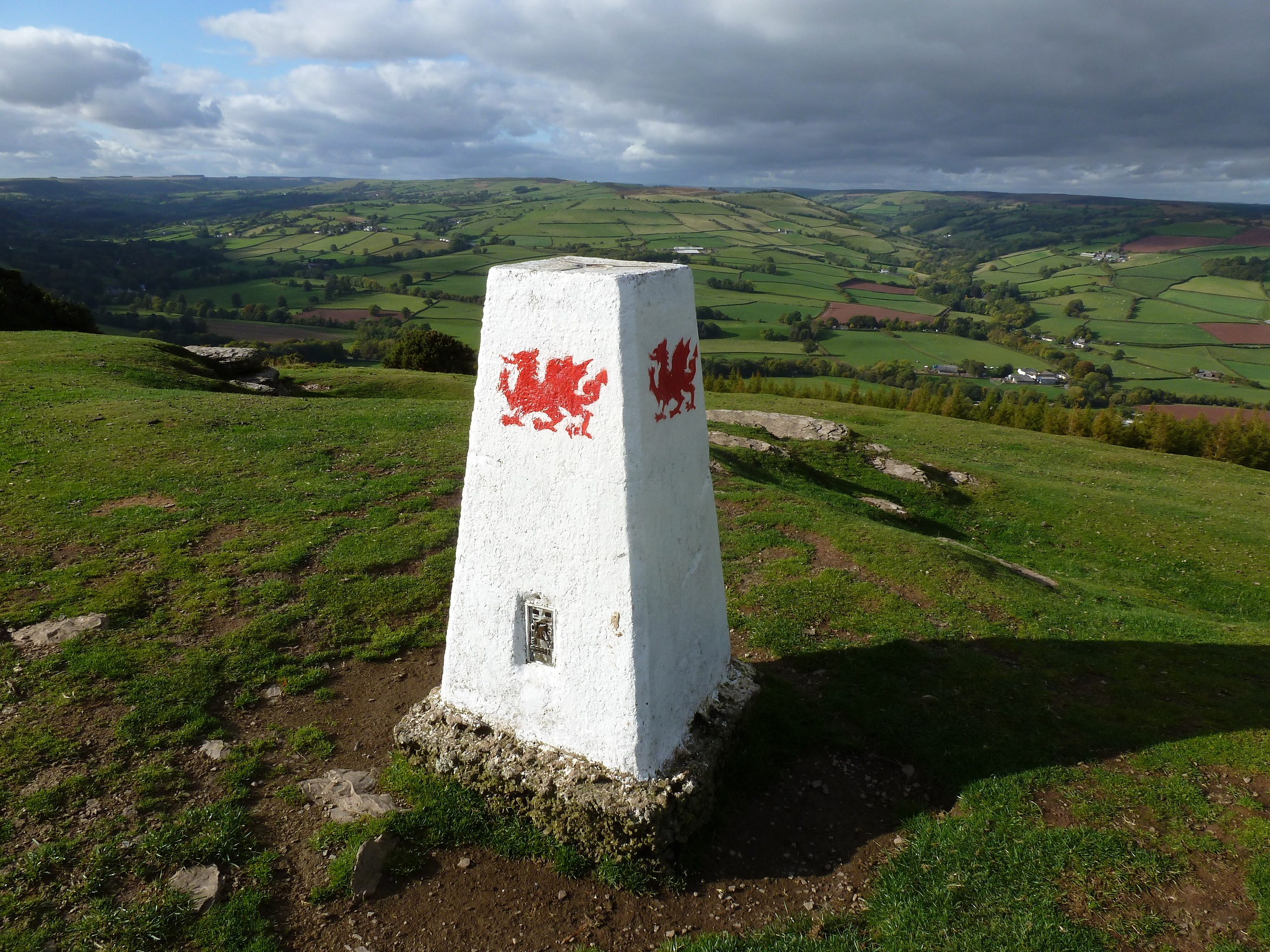 Mynydd Illtud, Powys, Wales: Twyn y Gaer triangulation point